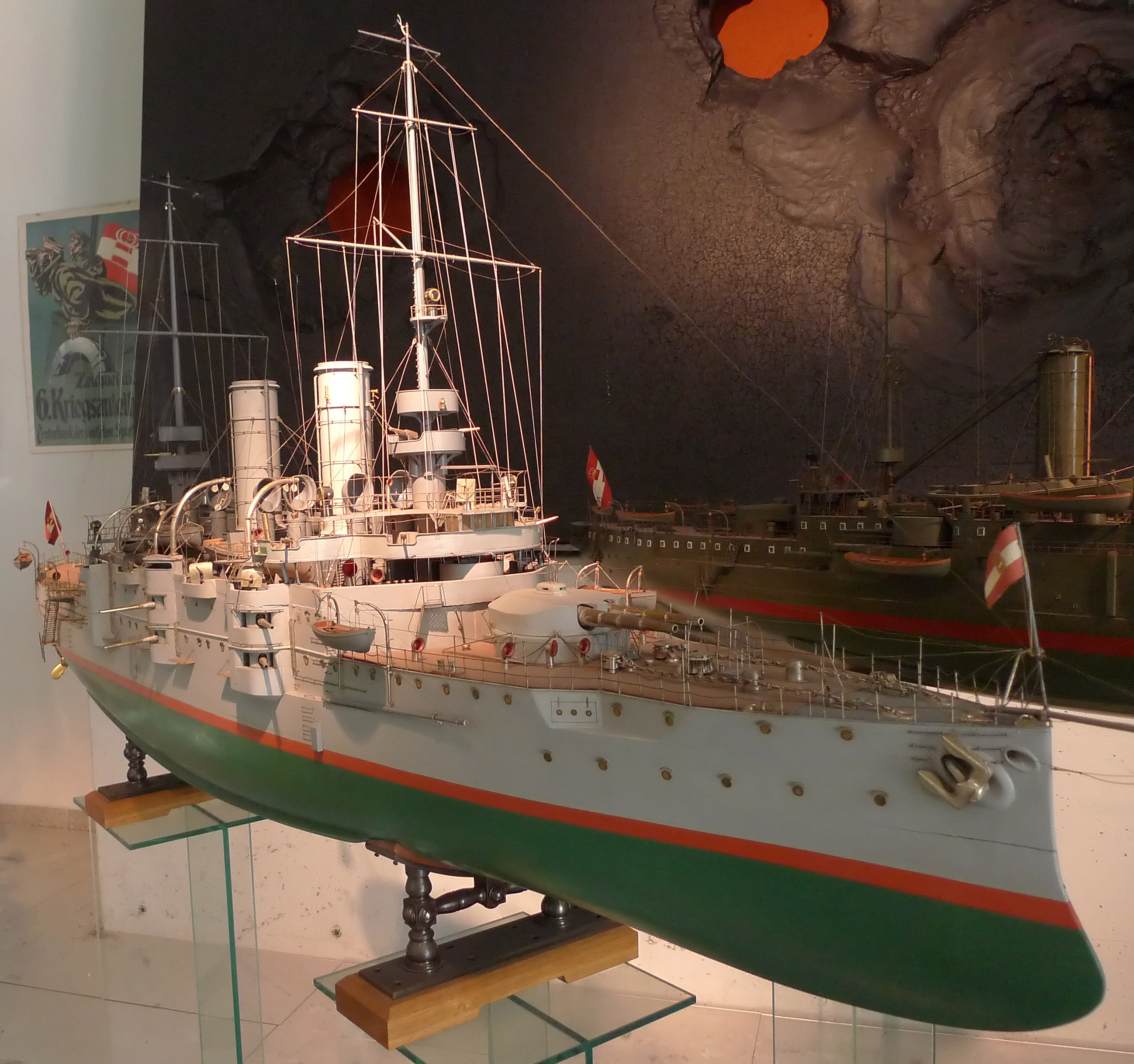 Pre-dreadnought Habsburg class battleship SMS Árpád of the Austro-Hungarian Navy. 1:50 scale model, Heeresgeschichtliches Museum Wien.